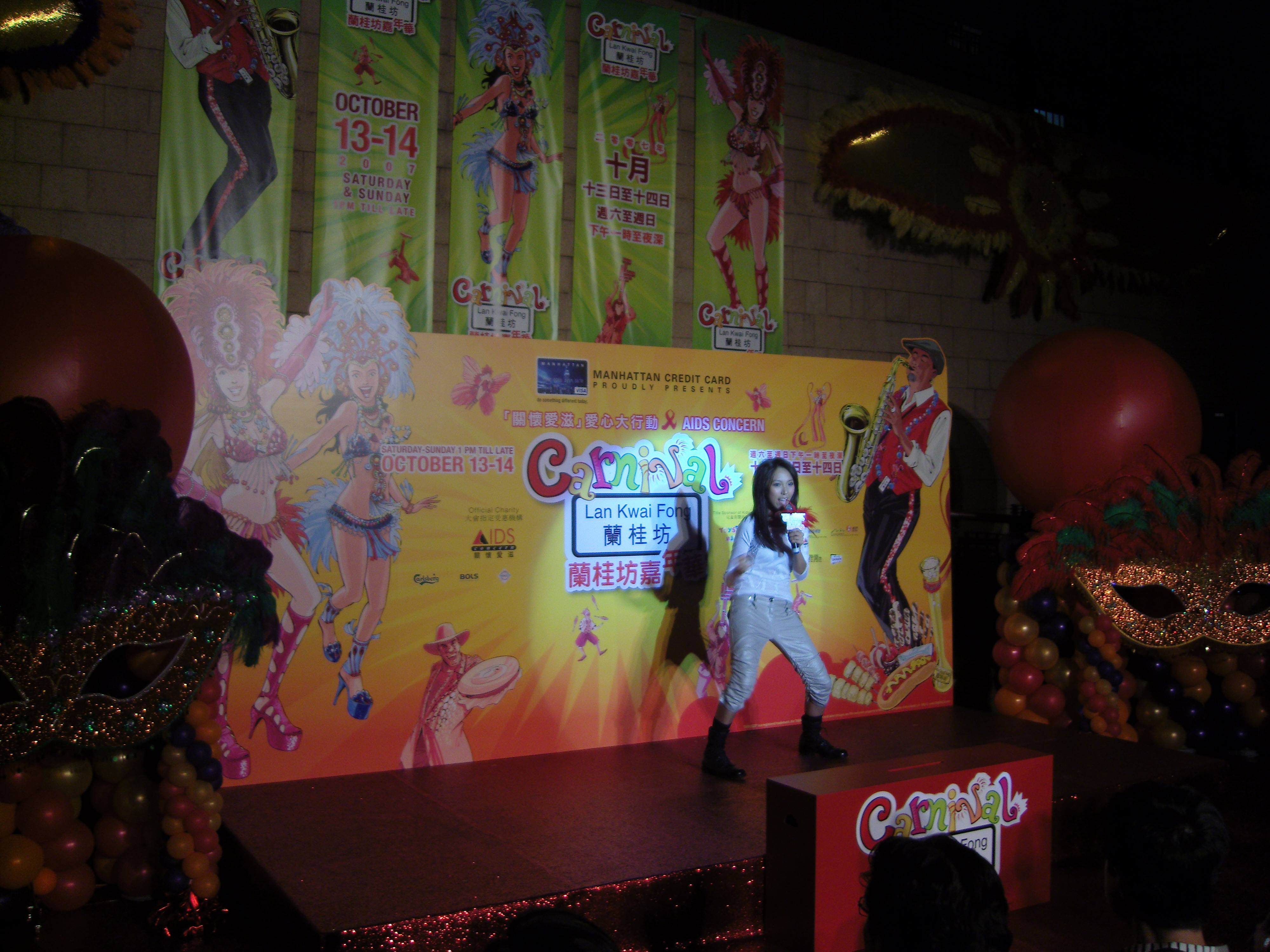 Lan Kwai Fong Carnival 2007 at Lan Kwai Fong, Central, Hong Kong.